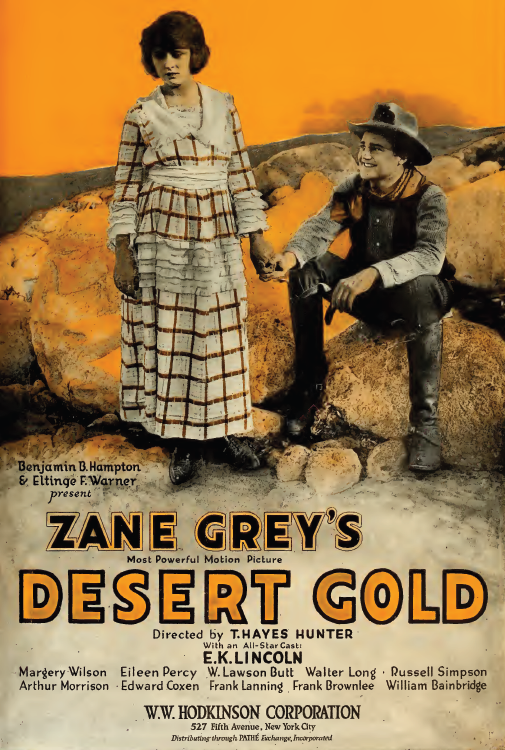 Advertisement for the Zane Grey novel based American film Desert Gold (1919).